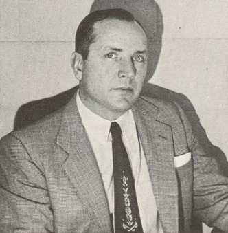 Pitt Panthers men's basketball coach Robert Timmons